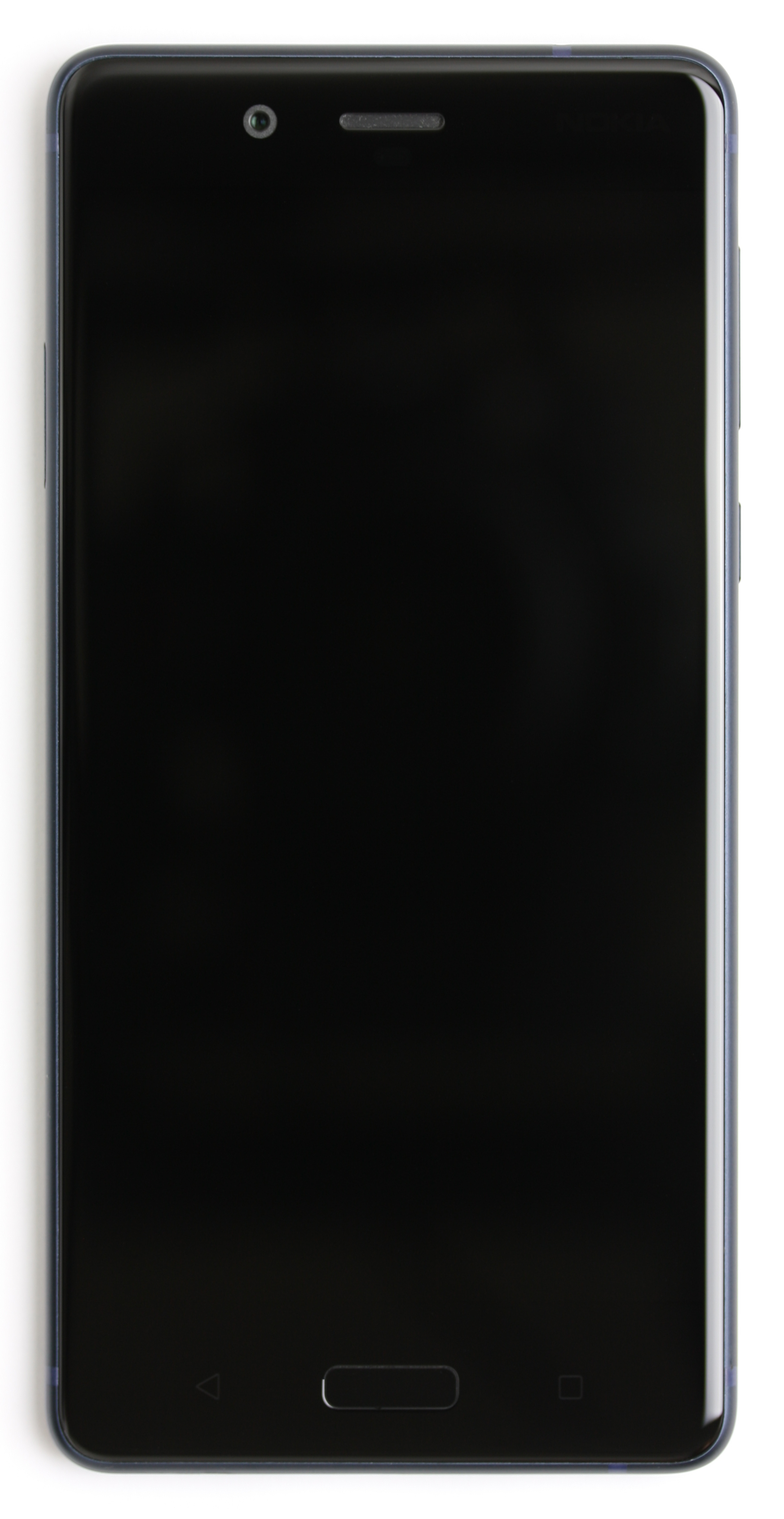 The front side of a Nokia 8